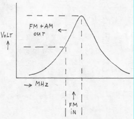 Slope detecgion is a method where changes in freqency create changes in amplitude of the signal.